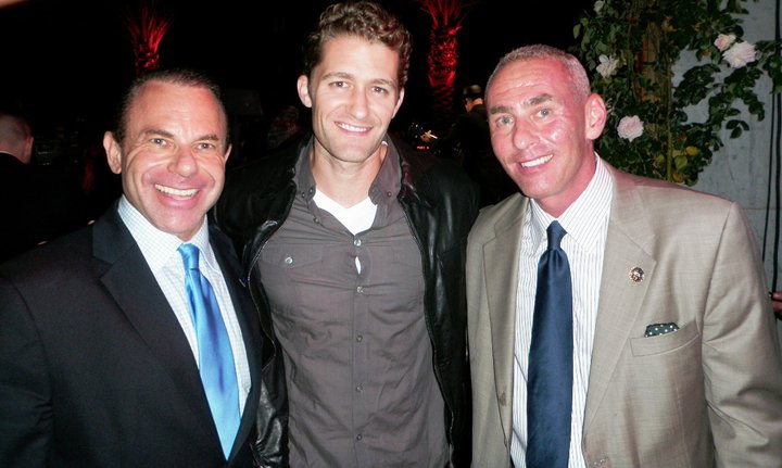 Glee Star Matthew Morrison (Will Schuster) with Gay Rights Activists married couple Don Norte and Kevin Norte at P-FLAG 2010's Charitable Event at The London Hotel in West Hollywood , California. Shows Glee's continued commentment to the Gay community.